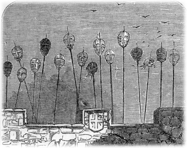 An image of traitors' heads on old London Bridge